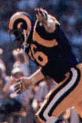 Los Angeles Rams defensive tackle Cody Jones pictured in a defensive play during a November 2, 1980 home game against the New Orleans Saints.